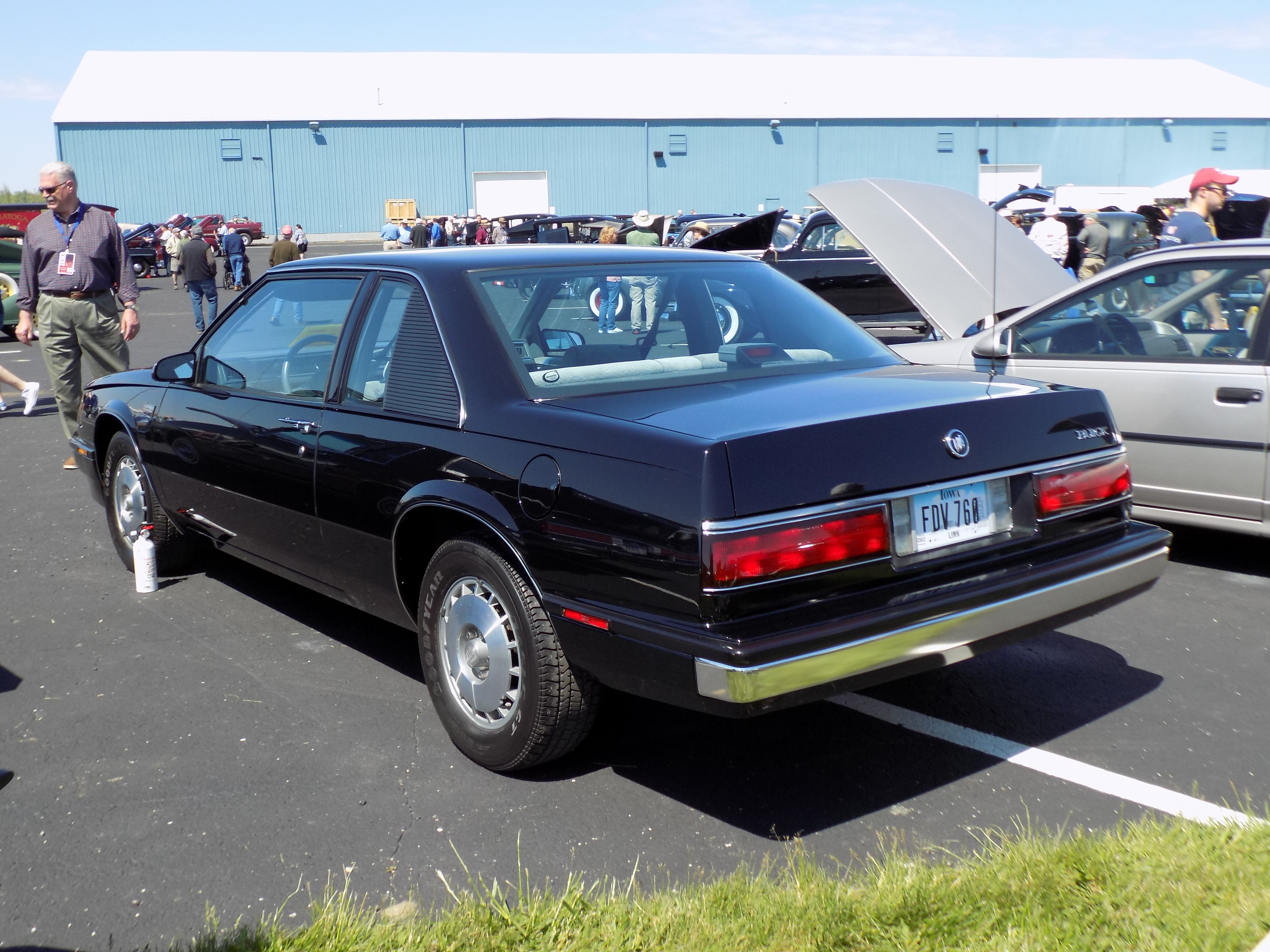 Triple Crown Antique Automobile Club of America (AACA) Classic Car Club Of America (CCCA) First Joint Meet Auburn Auction Park Auburn, Indiana May 2017 . Click here for more car pictures at my Flickr site. Or here for my Car Crazy Tumblr site. Or on Twitter @DVS1mn.